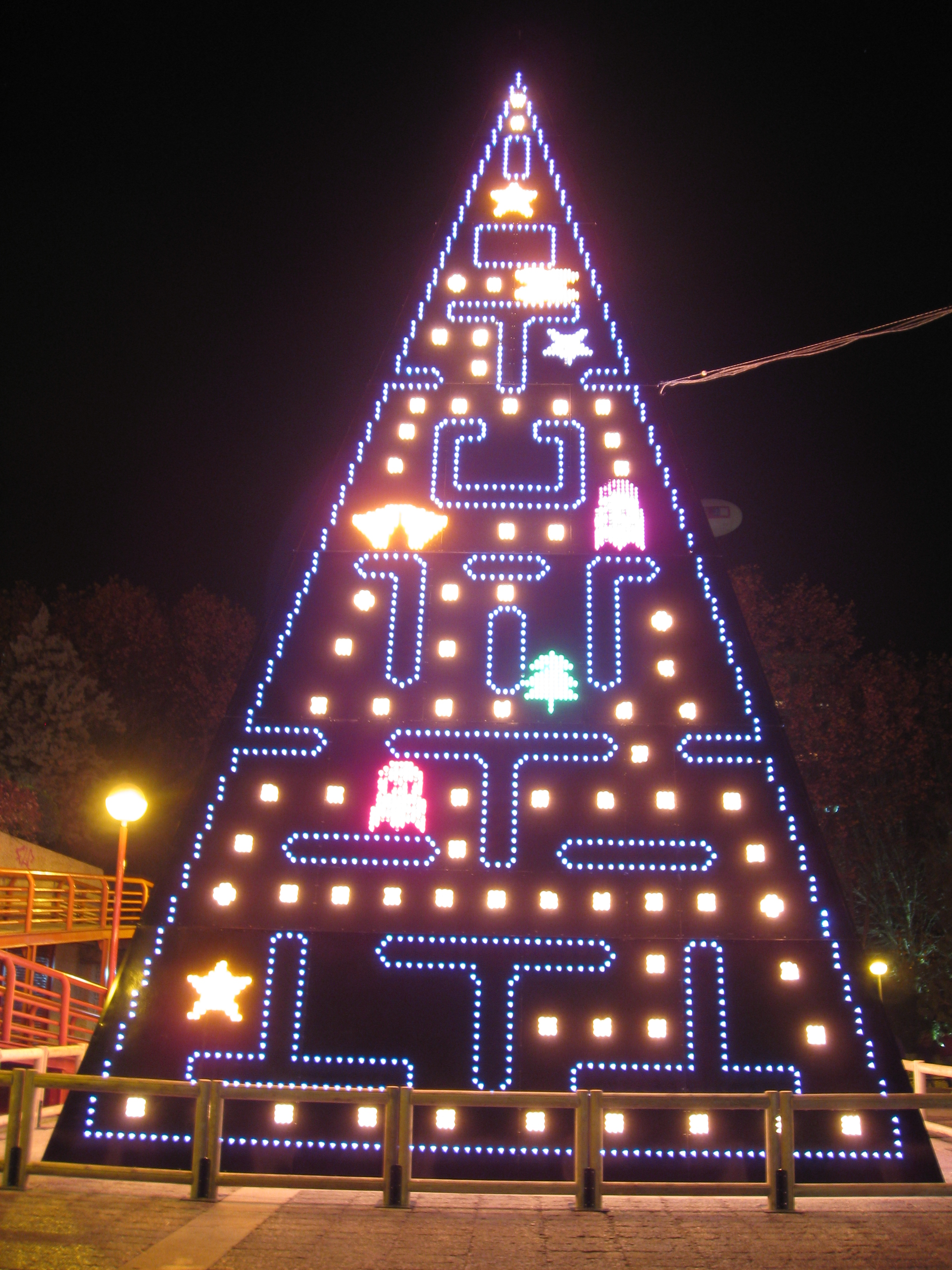 Pac-Man Christmas lights in AZCA, a business park in Madrid (Spain).